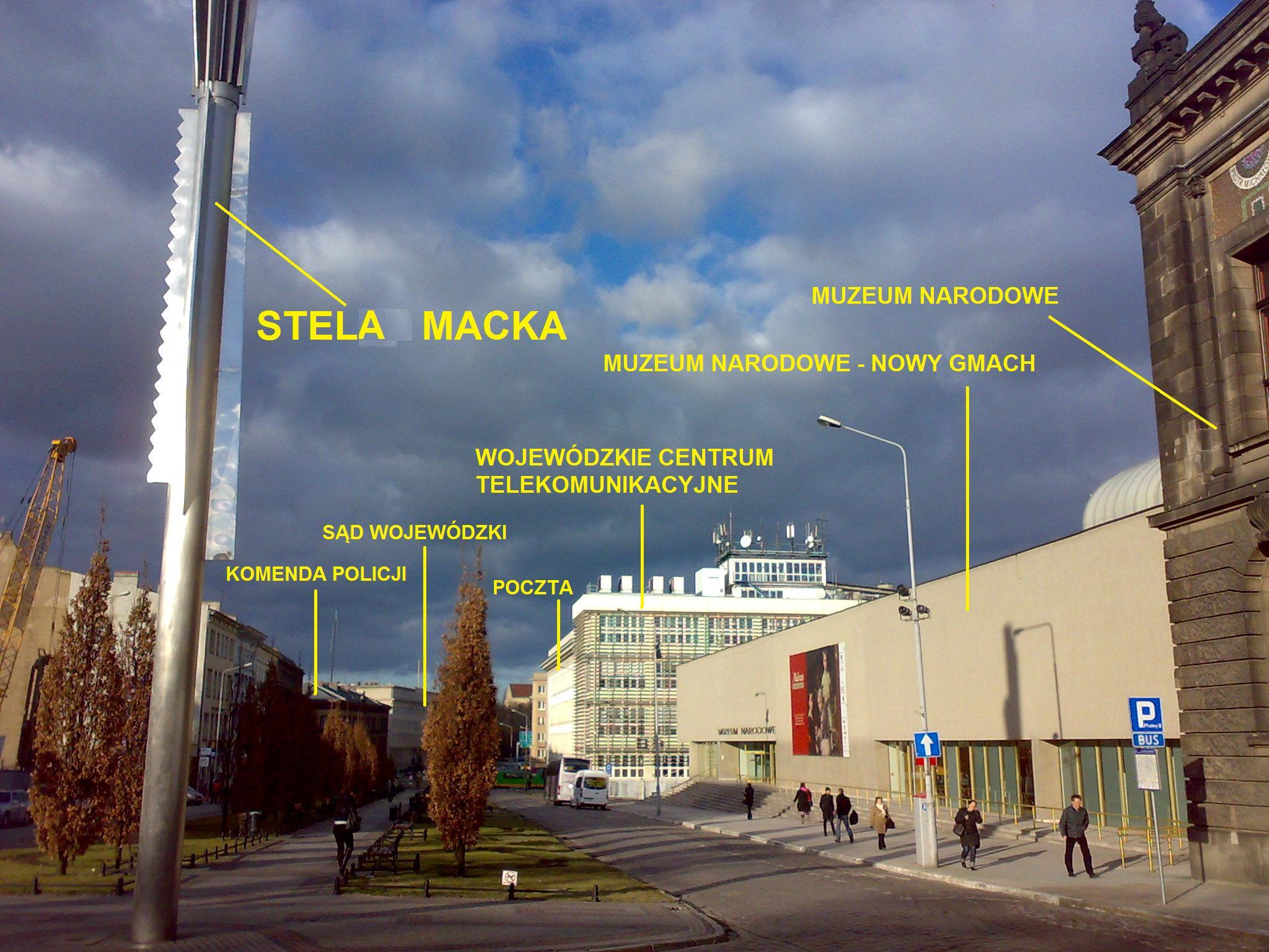 Marcinkowskiego Bld. Poznan.